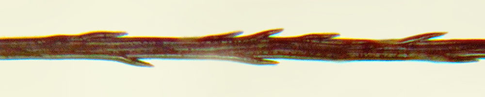 James Scott, personal photo, dandelion pappus fiber, photographed in bright field microscopy